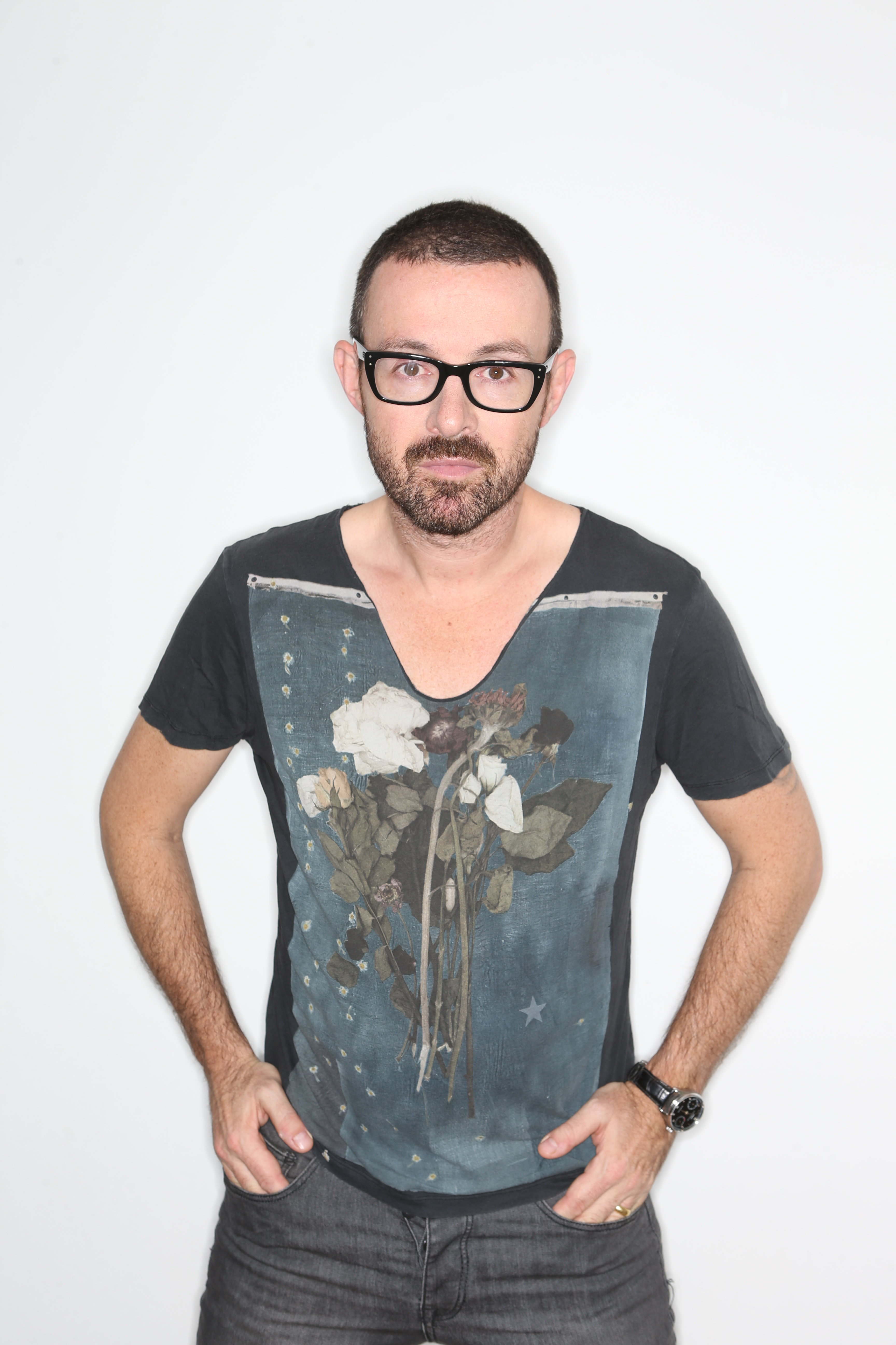 Studio photograph of DJ Judge Jules